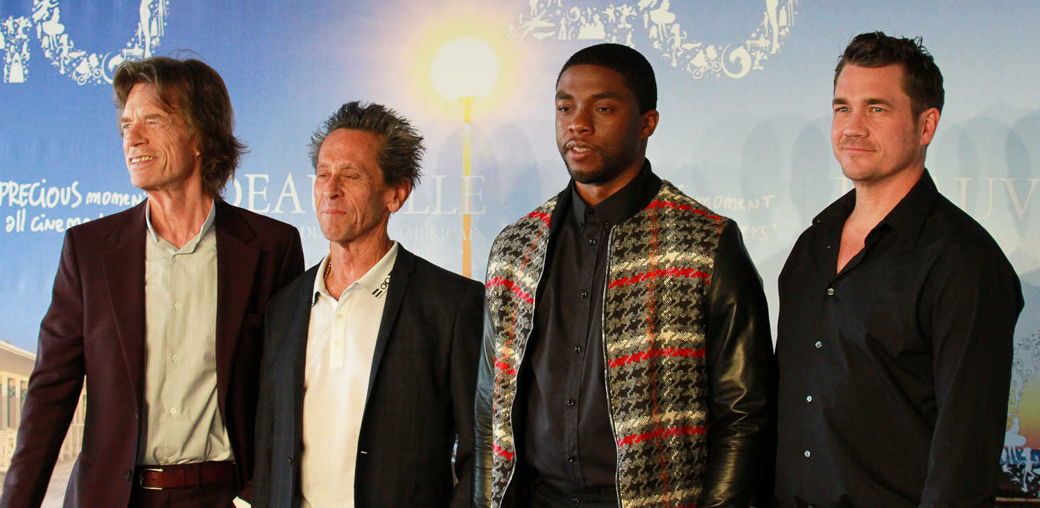 2014 Deauville American Film Festival (France) - September 12, 2014. From left to right: Mick Jagger, Brian Grazer, Chadwick Boseman and Tate Taylor for the movie Get on Up.